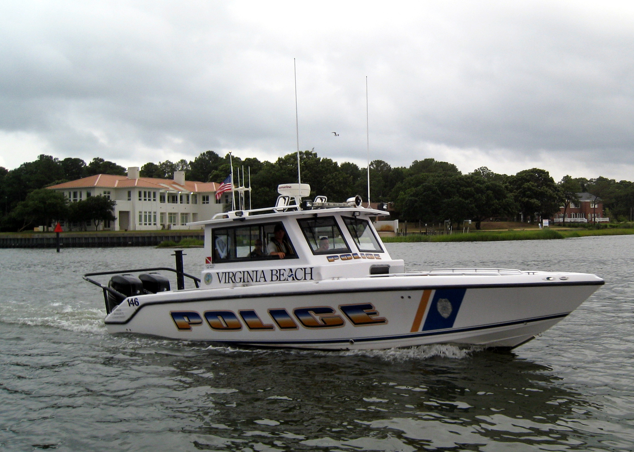 Patrol craft (hull number 146) of the Marine Patrol Unit of the Virginia Beach Police Department operating in Lynnhaven River on 10 July 2010.